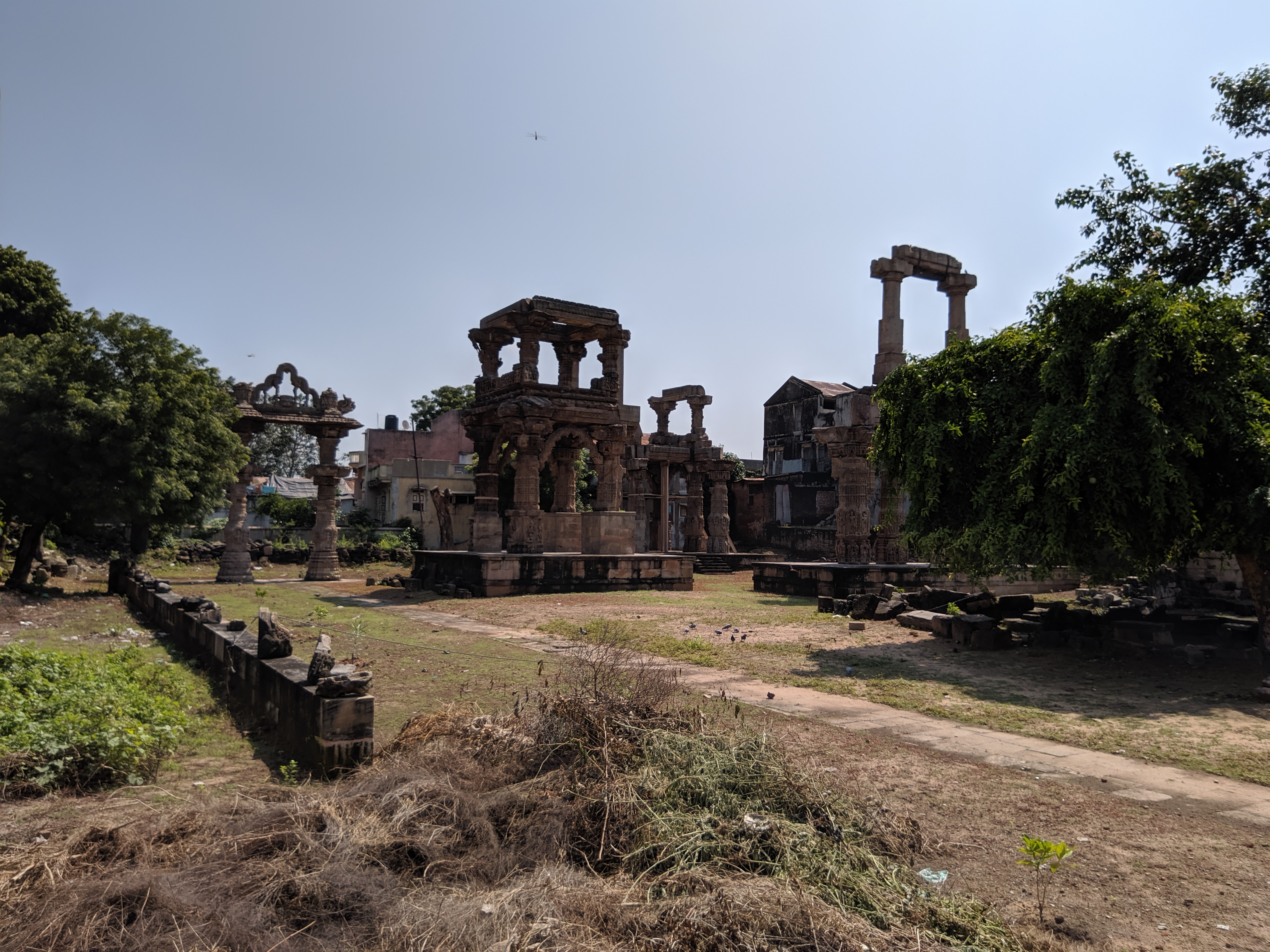 Rudra Mahalaya Temple in Siddhpur located in Siddhpur town in Gujarat state of India. Built in 10th-11th century and destroyed by 14th century , it was converted into mosque. Only ruins of the temple remain.